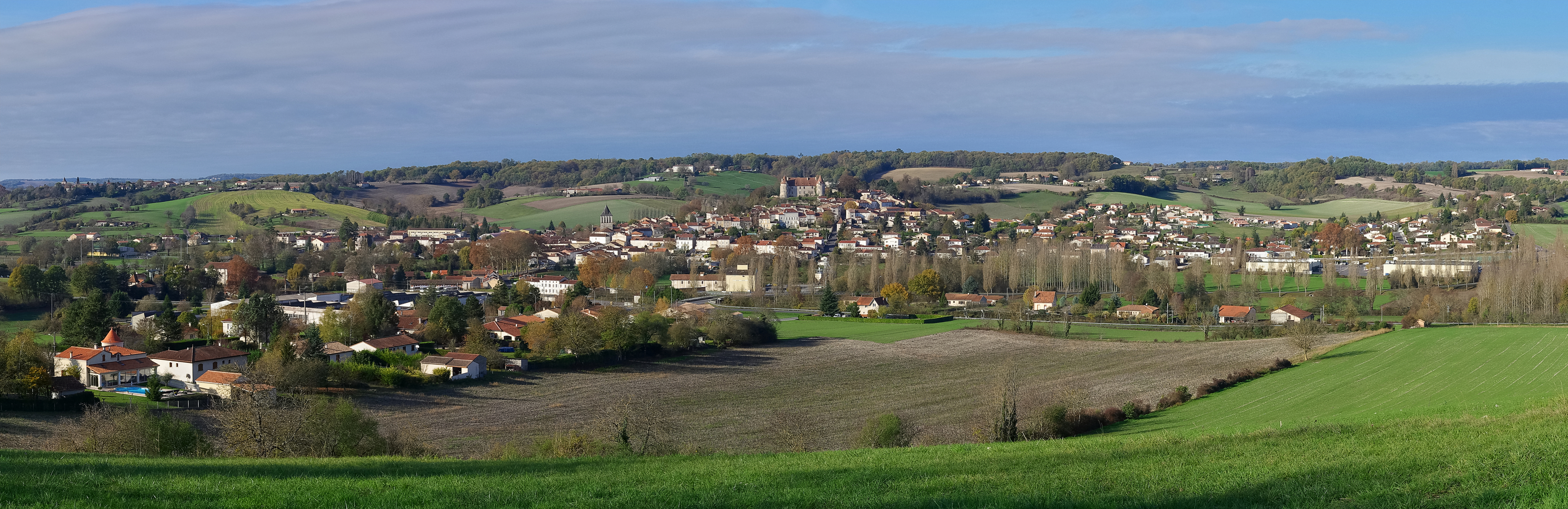 East view of a typical village built around a hill on which can be seen a 15 th cenury castle (first settlement in the 11 th century). Montmoreau, Charente, France.